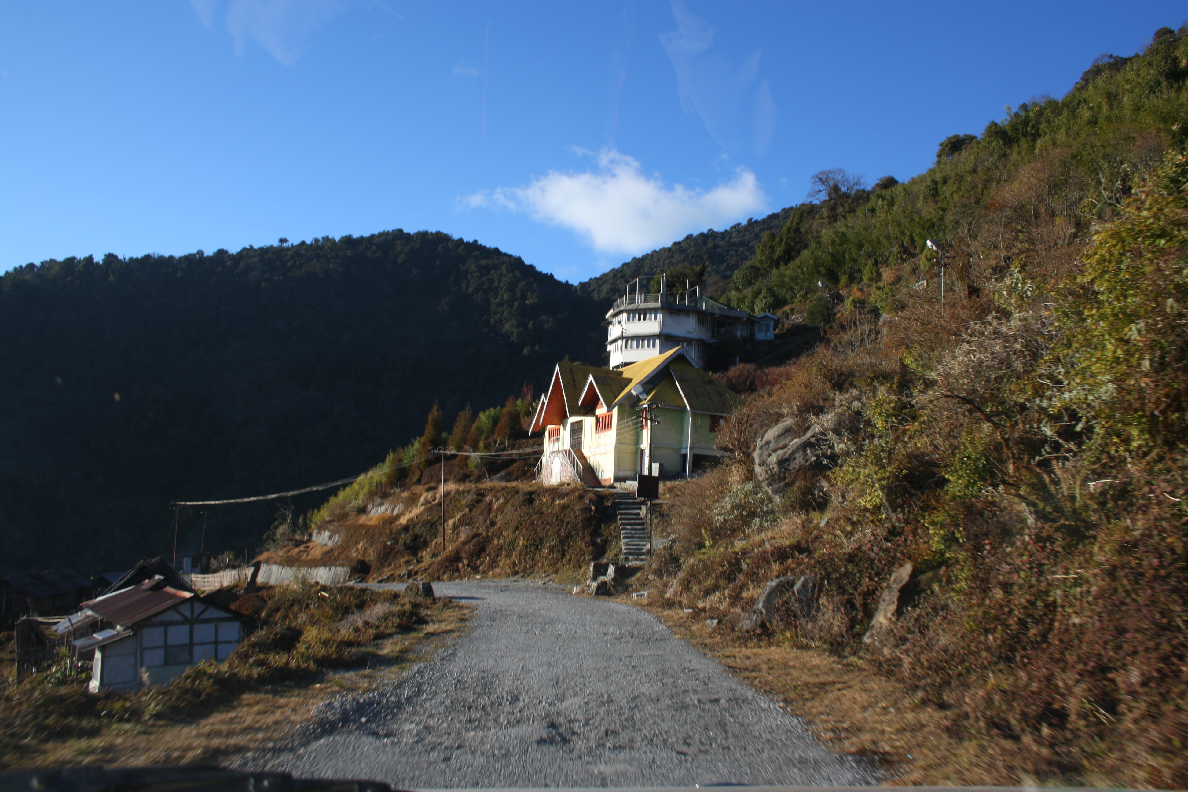 The Circuit House on the Southern side of Mayodia pass